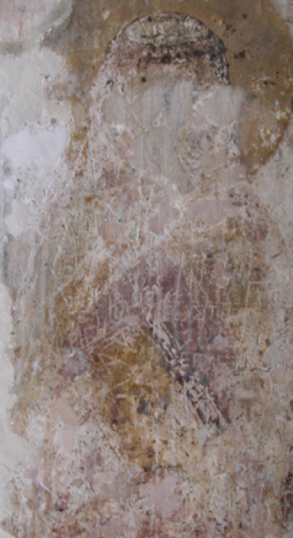 Damaged wall painting from the Omorphe Ekklesia church in Athens showing a Latin monk holding a bible.